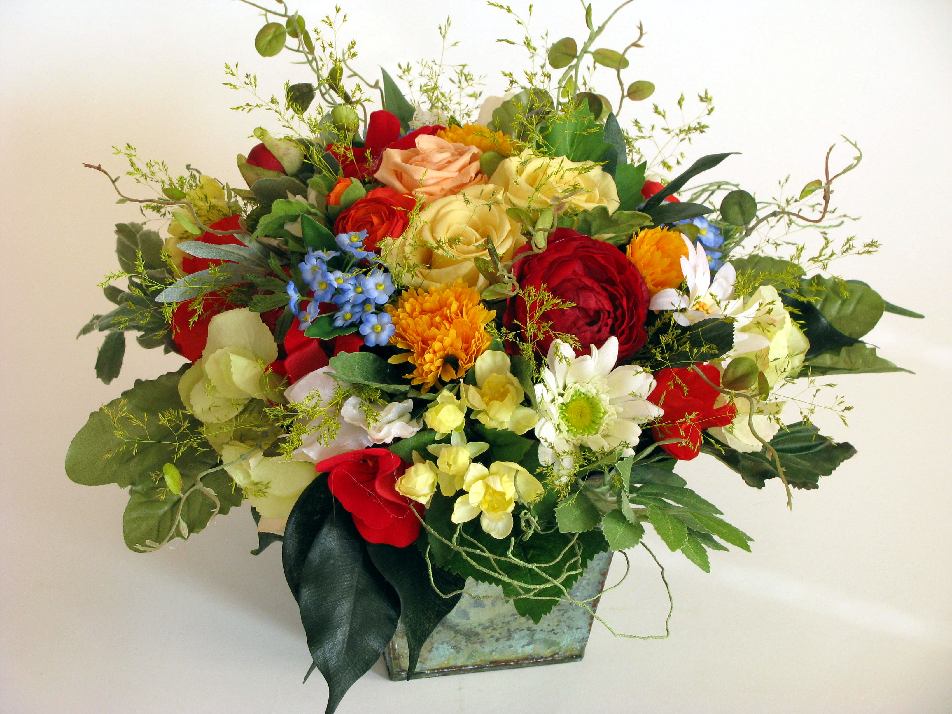 Bouquet of flowers Biedermeier style; silk flowers and preserved rose blossoms